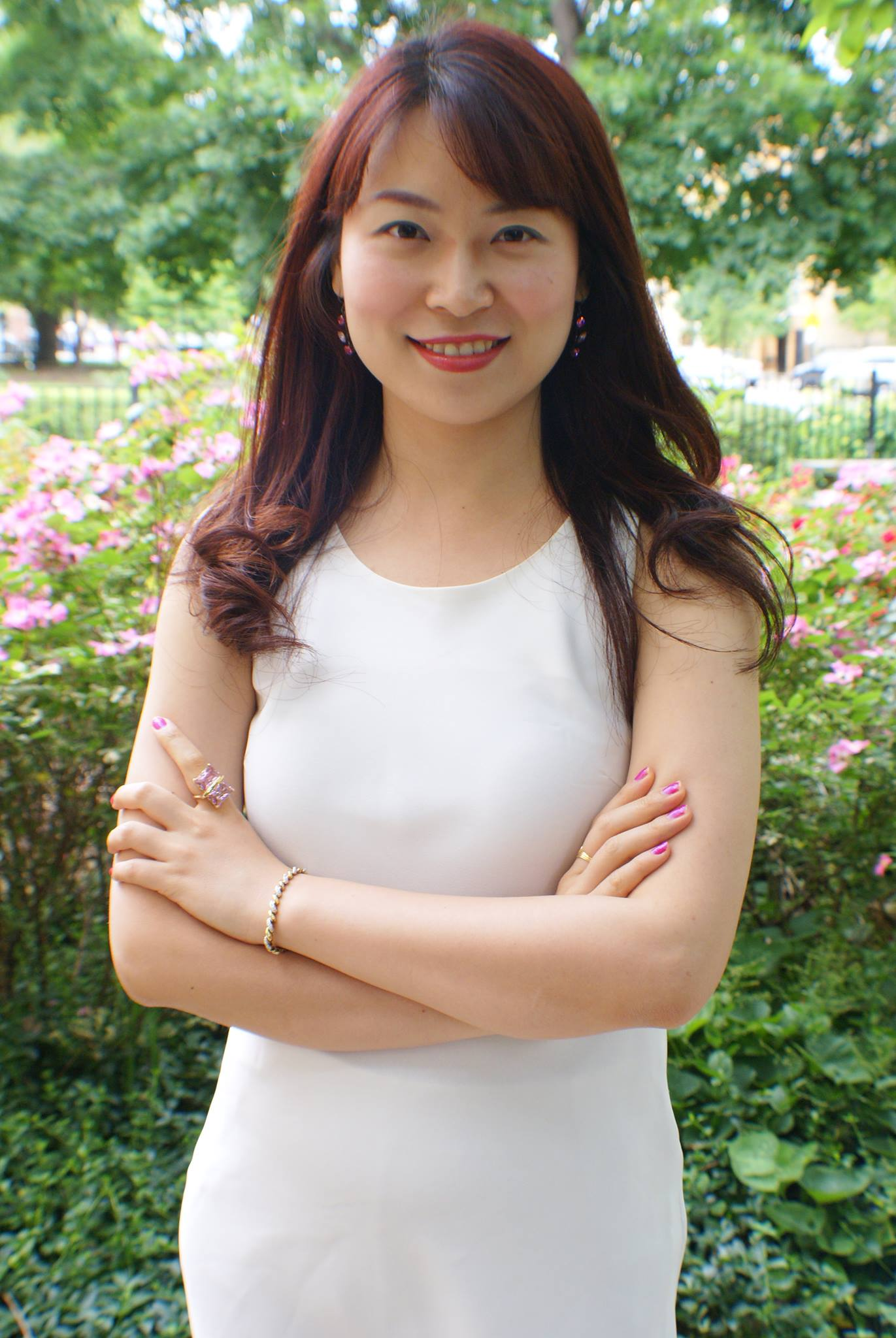 Yesoe Yoon for IL. House Representatives